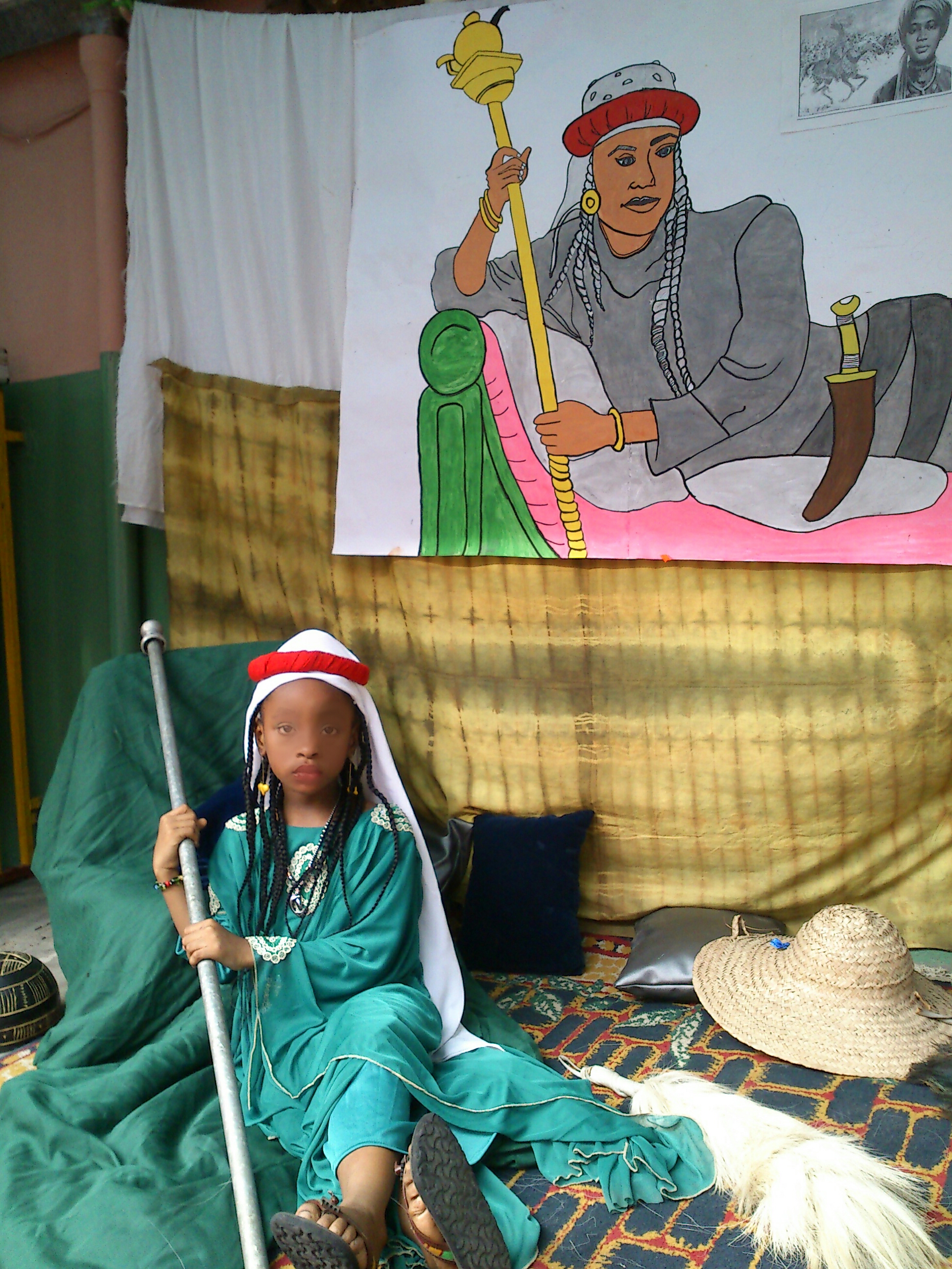 This is an image of Cultural Fashion or Adornment from Nigeria